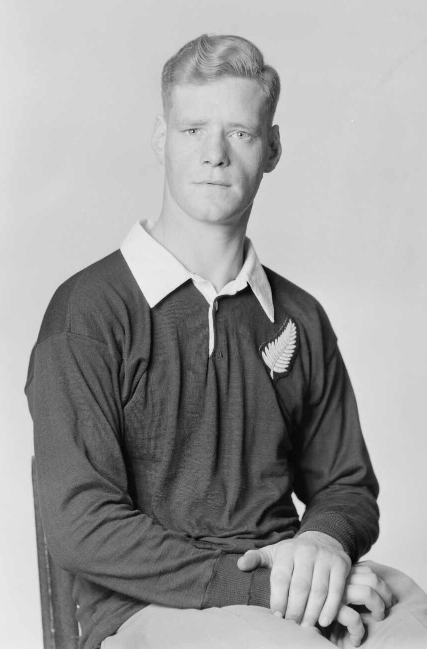 Charles 'Arthur' Woods, member of the All Blacks, New Zealand representative rugby union team